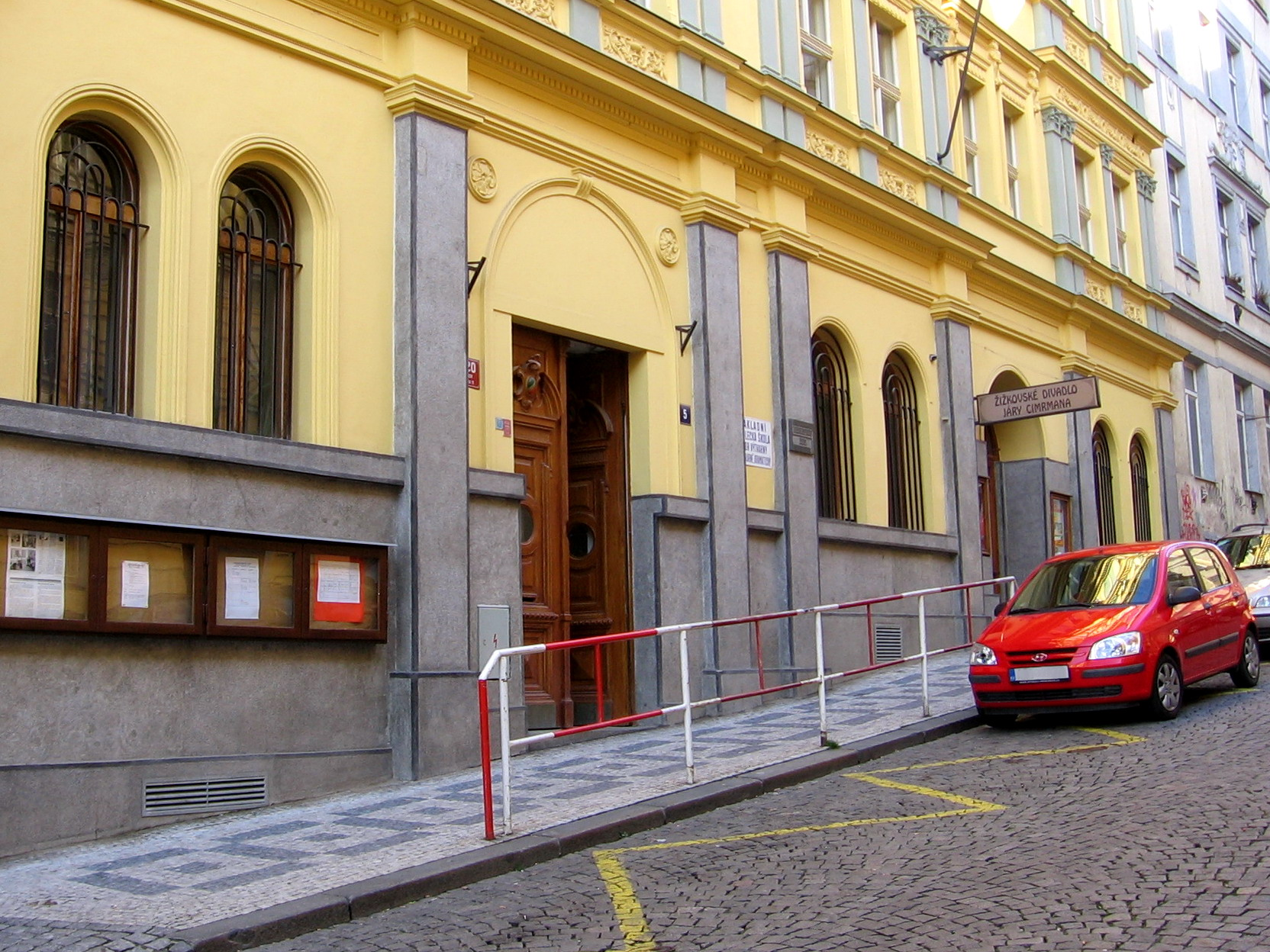 The Jára Cimrman Theatre in Žižkov, Prague